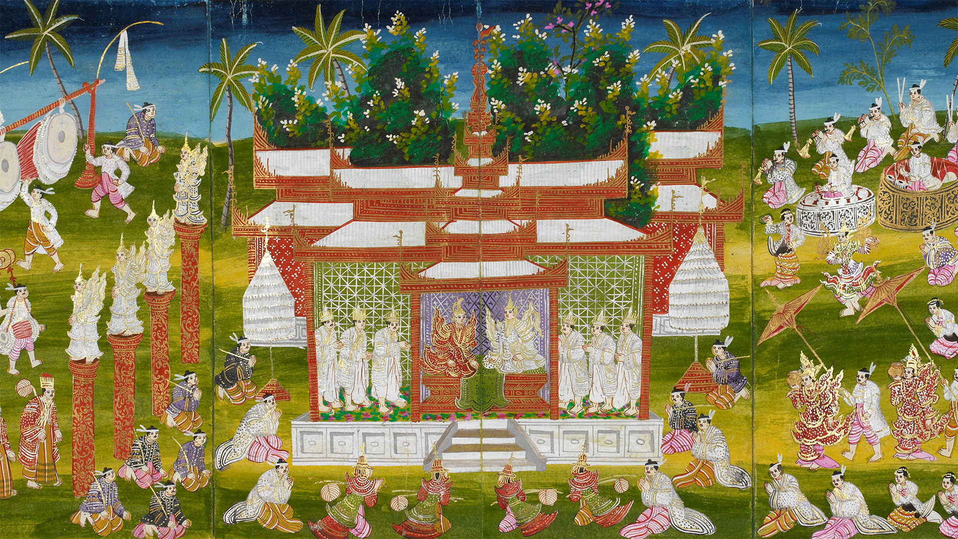 Abhiseka - coronation and anointing of the Konbaung king မြန်မာဘာသာ: ဗိဿိတ်ထော်ခံပုံ